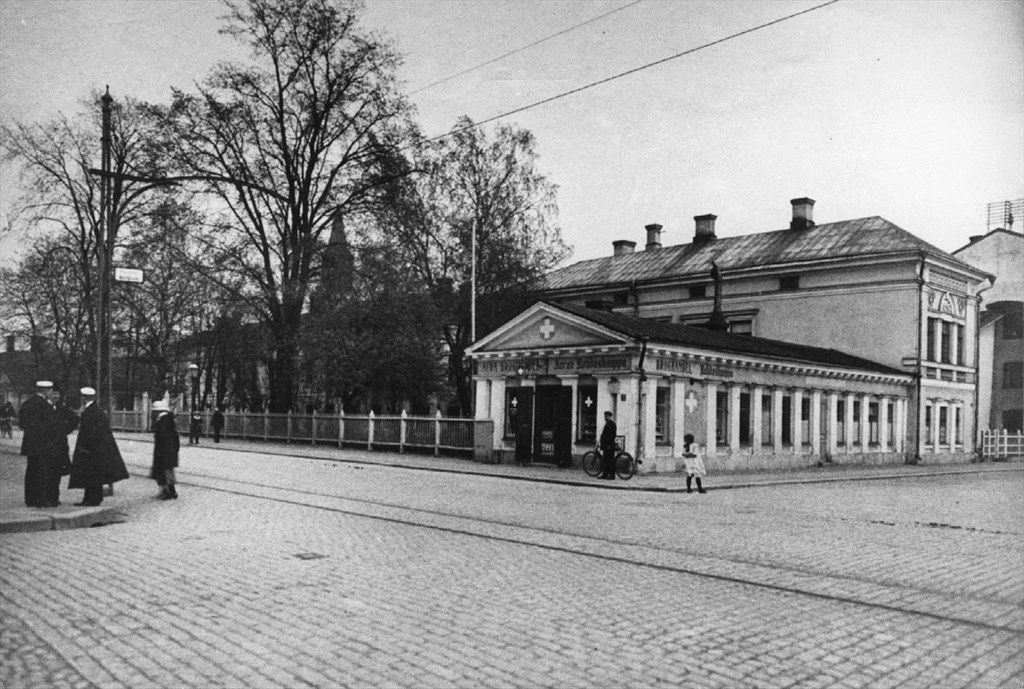 Julin's block Gestrin House.